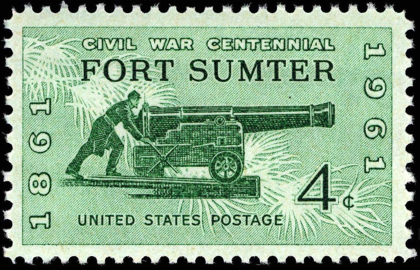 US Postage Stamp, 1961 issue, 4c, commemorating the Centennial of the Battle of Fort Sumpter, April 12-13, 1861.